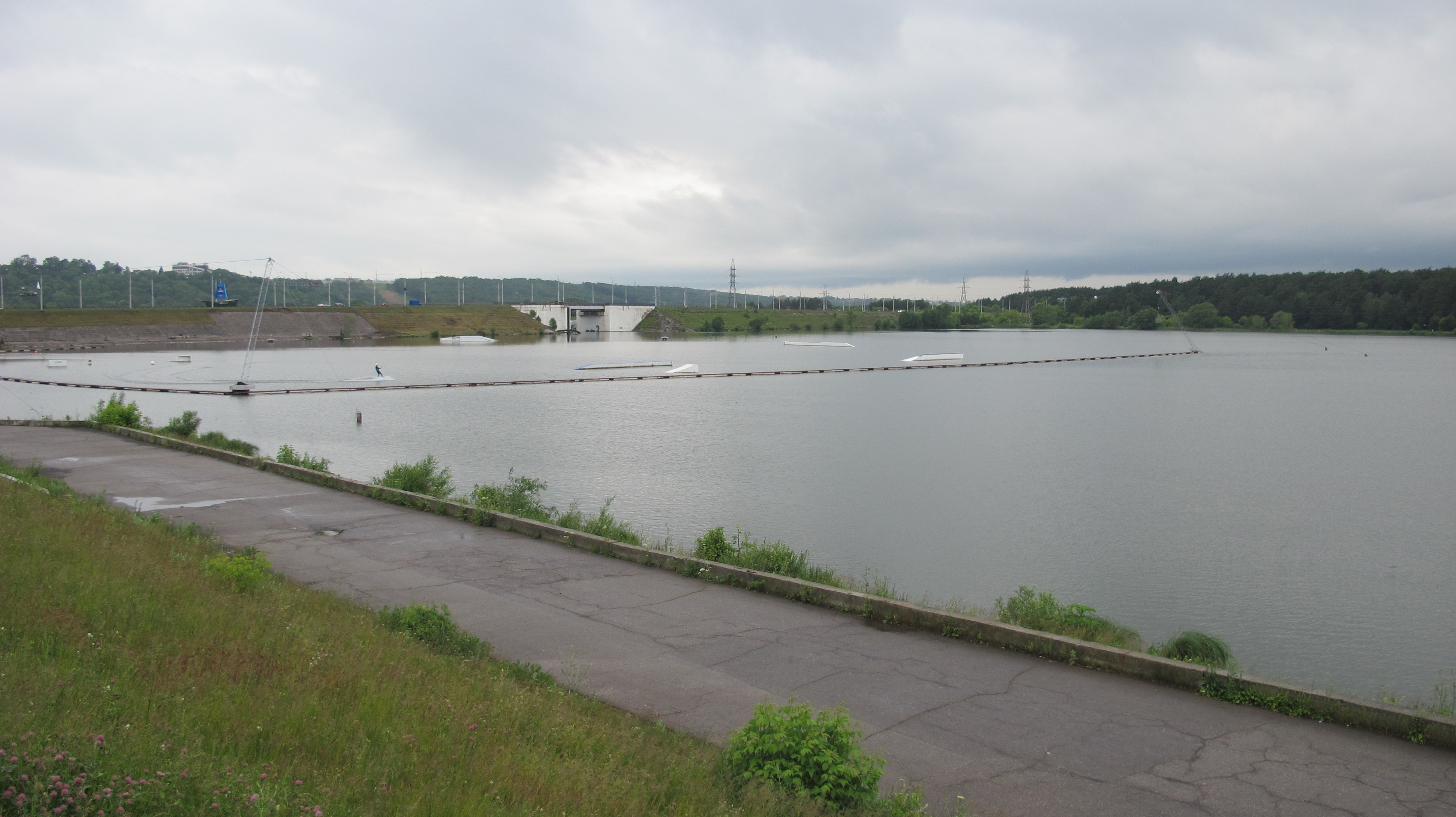 Wikiexpedition to Kaluga 2016-06-11.